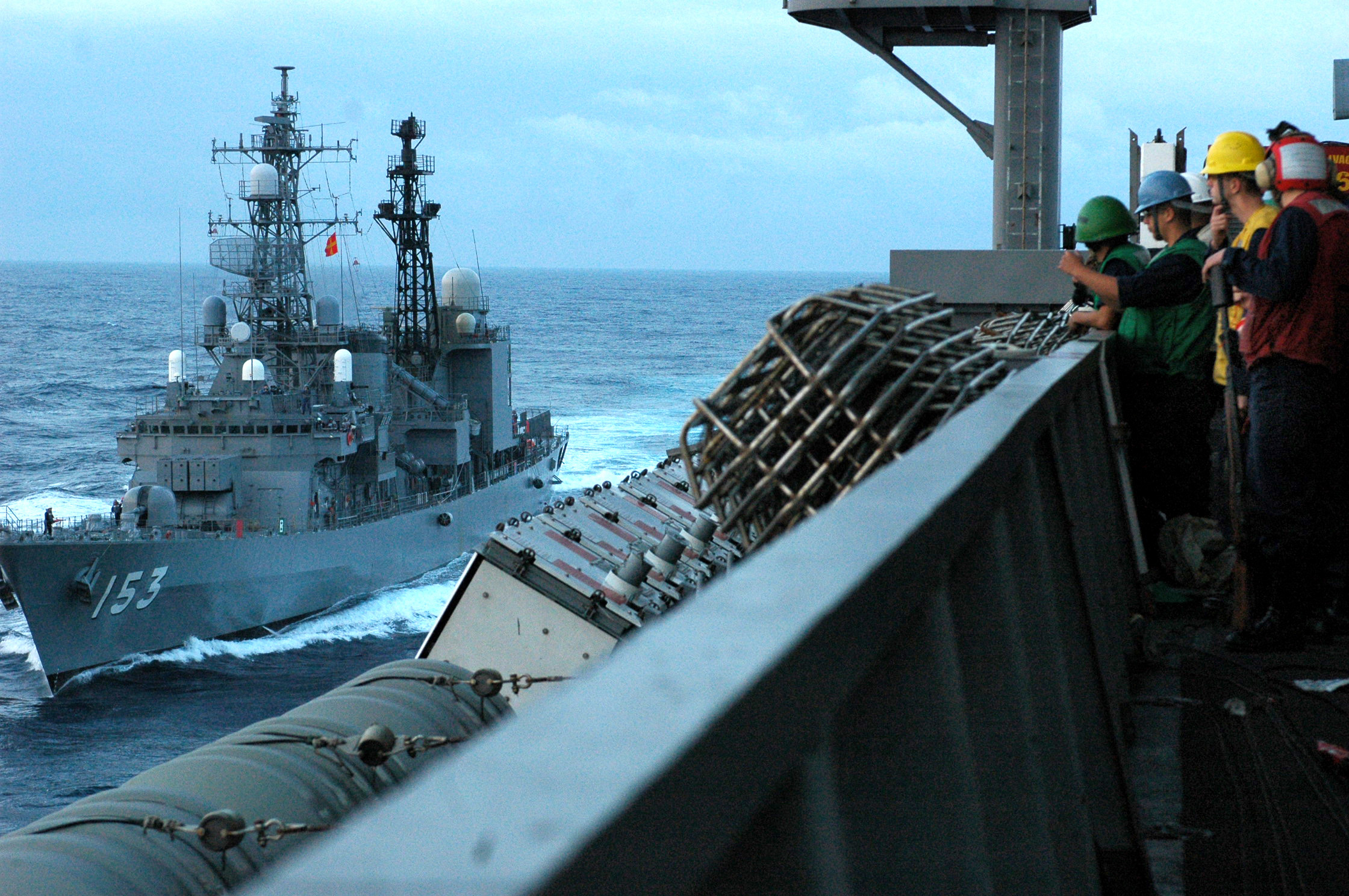 USS RONALD REAGAN, At sea (Mar. 17, 2007)- Before the sun starts to rise above the horizon, Deck Department personnel wait patiently as Japanese Naval Warship, JS Yuugiri (DD 153) takes her place alongside USS Ronald Reagan (CVN 76) during a mock Fueling At Sea (FAS). The Ronald Reagan Carrier Strike Group is currently underway on a surge deployment in support of U.S. military operations in the Western Pacific.